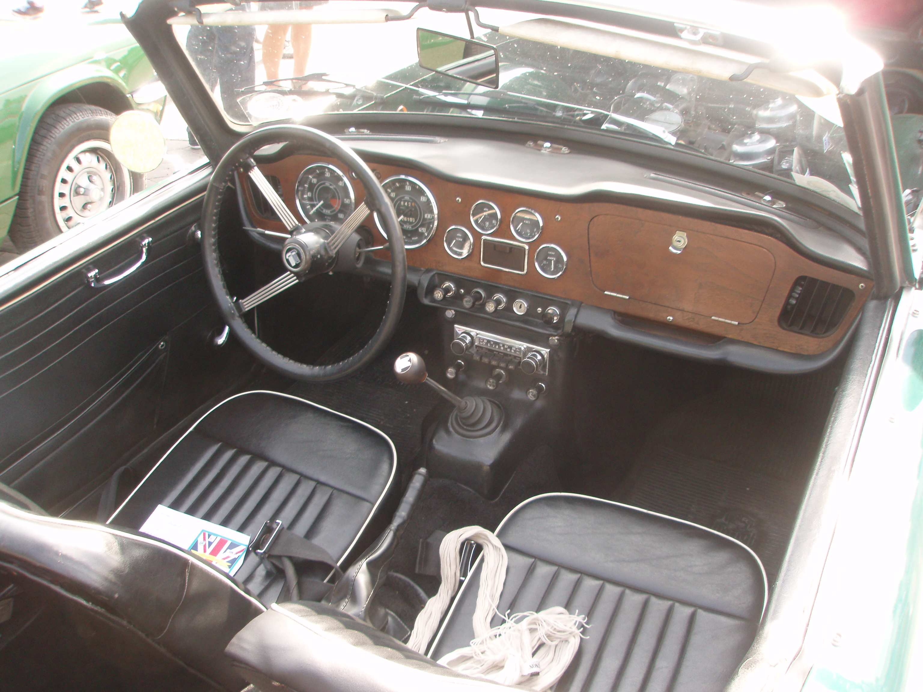 Cockpit of a Triumph TR4, late US version.